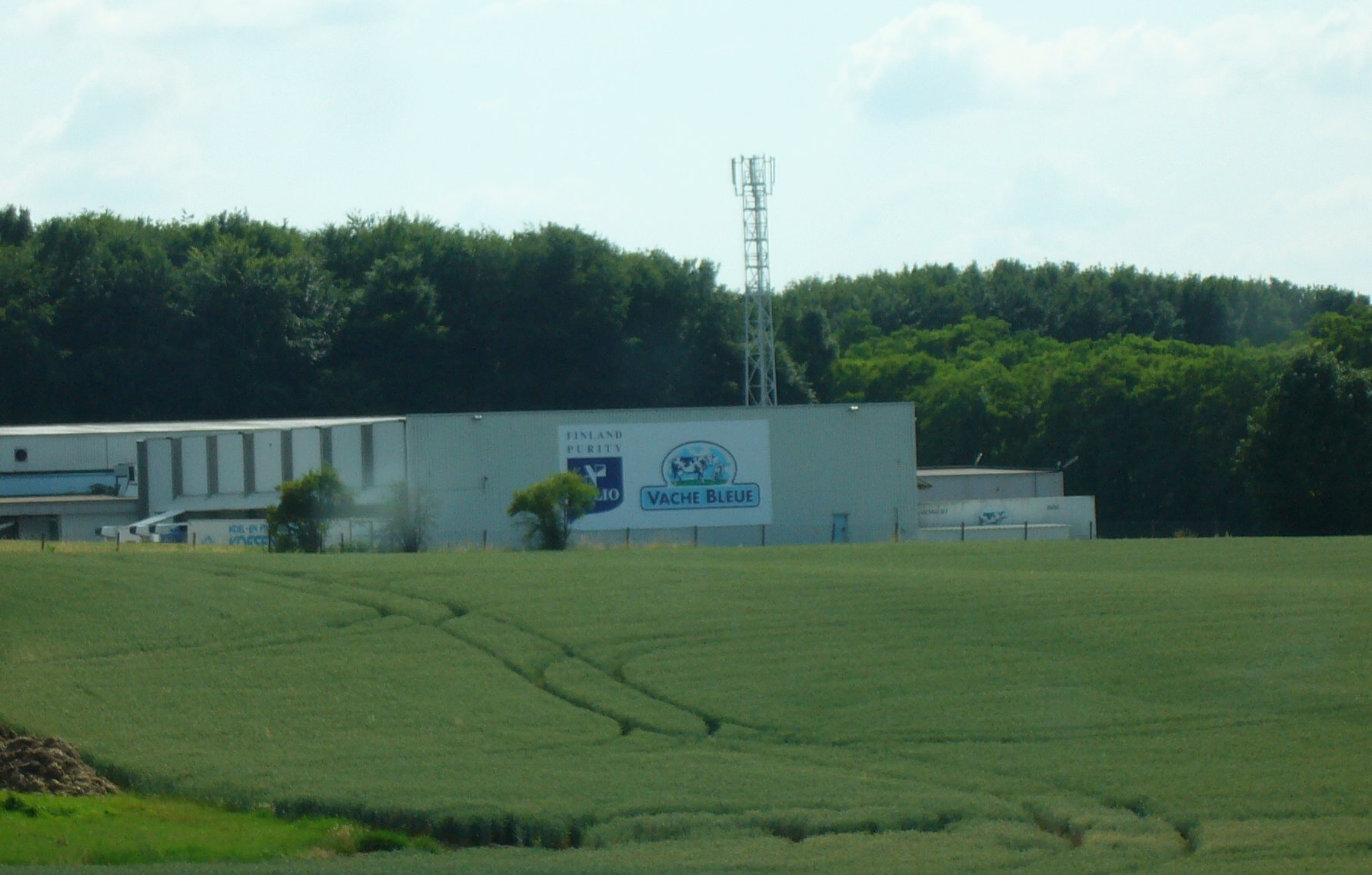 Valio's Belgian subsidiary Valio-Vache Bleue in Lillois-Witterzée, Belgium.